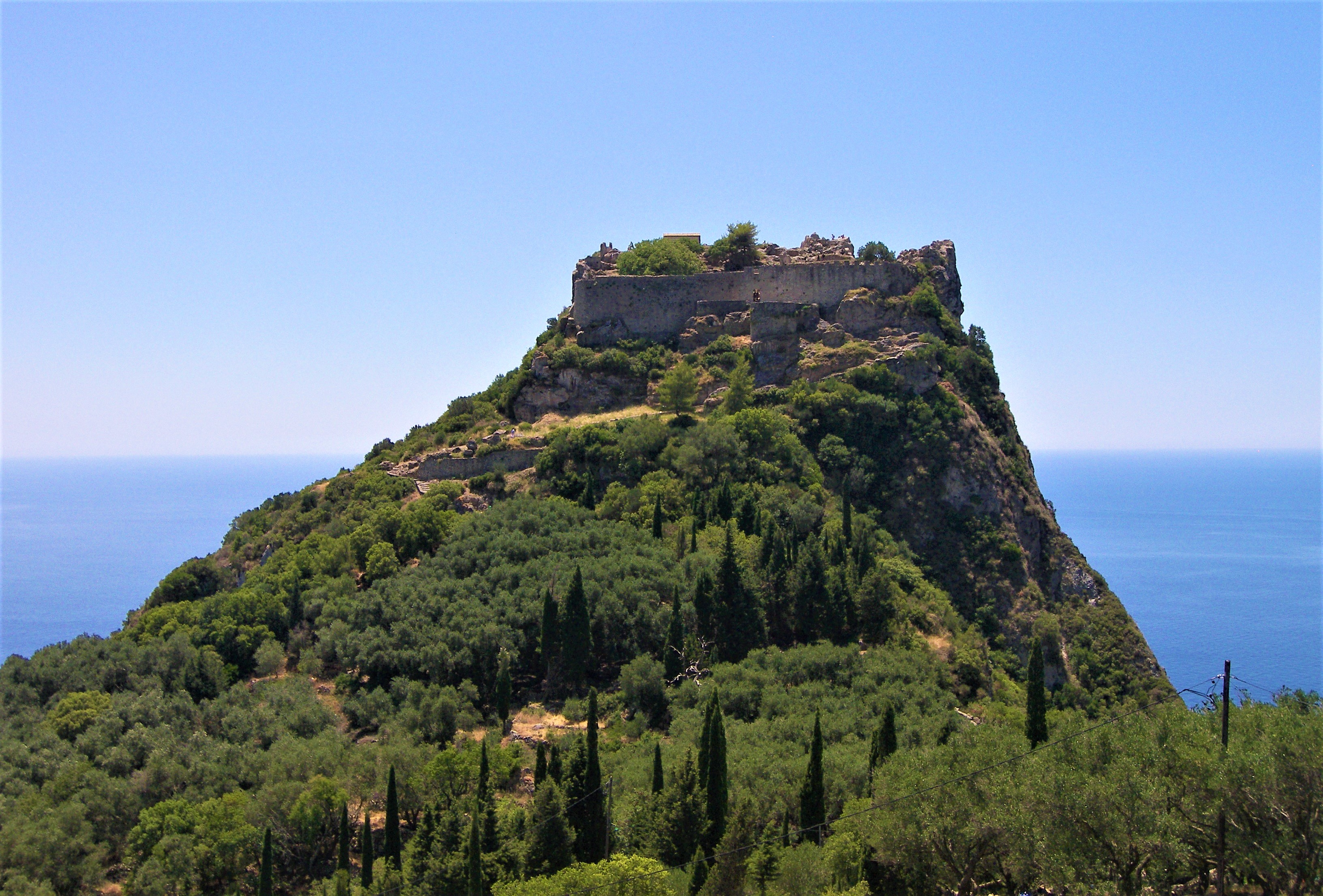 Corfu Angelokastro